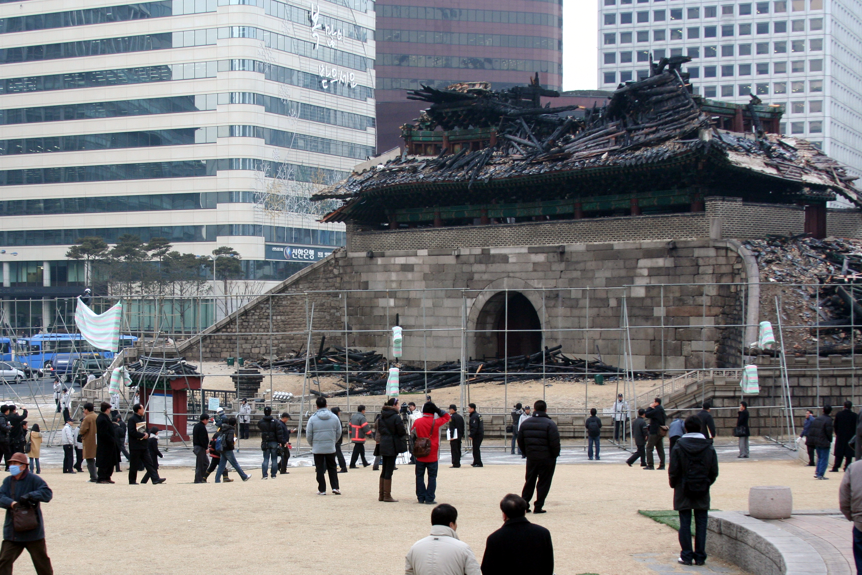 Sungnyemun or commonly known as Namdaemun located in Seoul after arson.